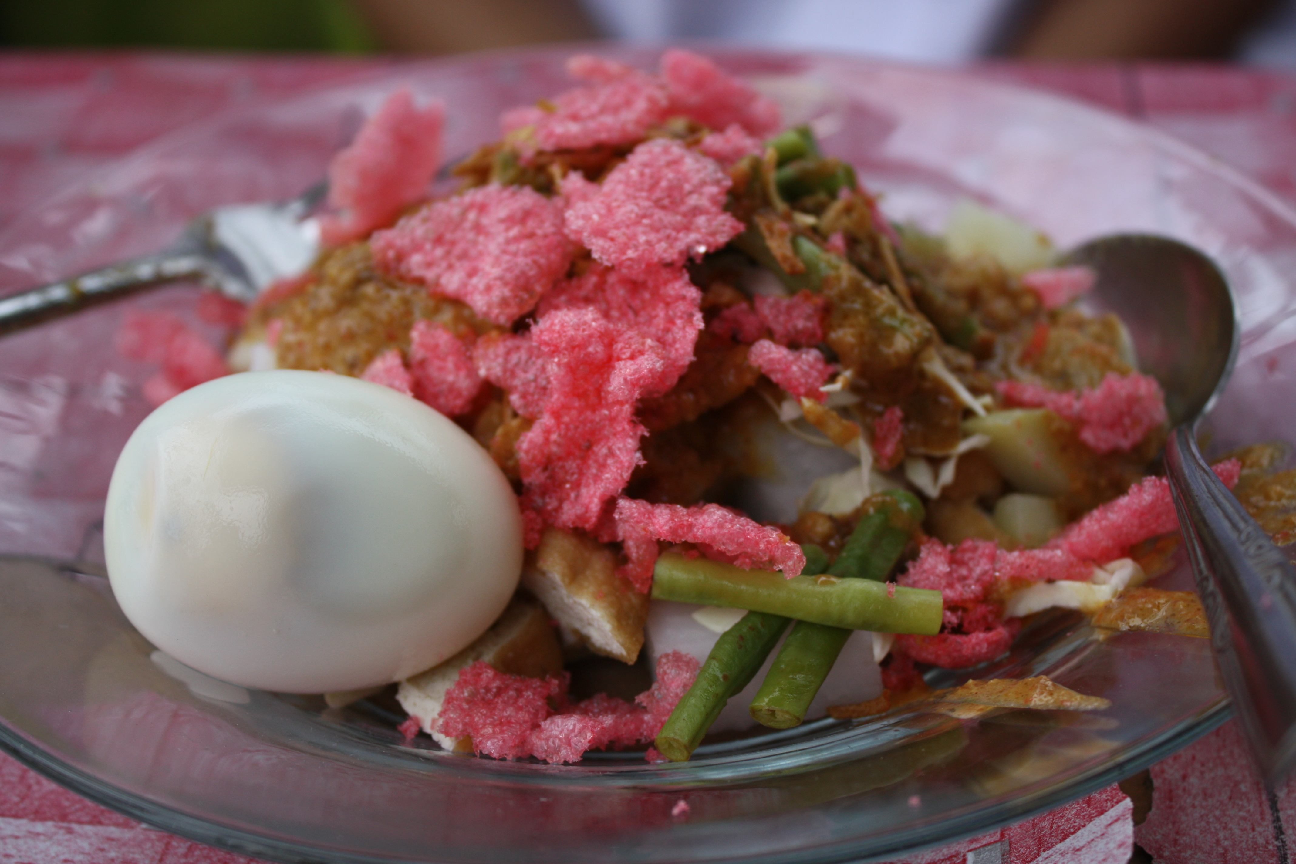 After sholat ied, we have this for break the festive